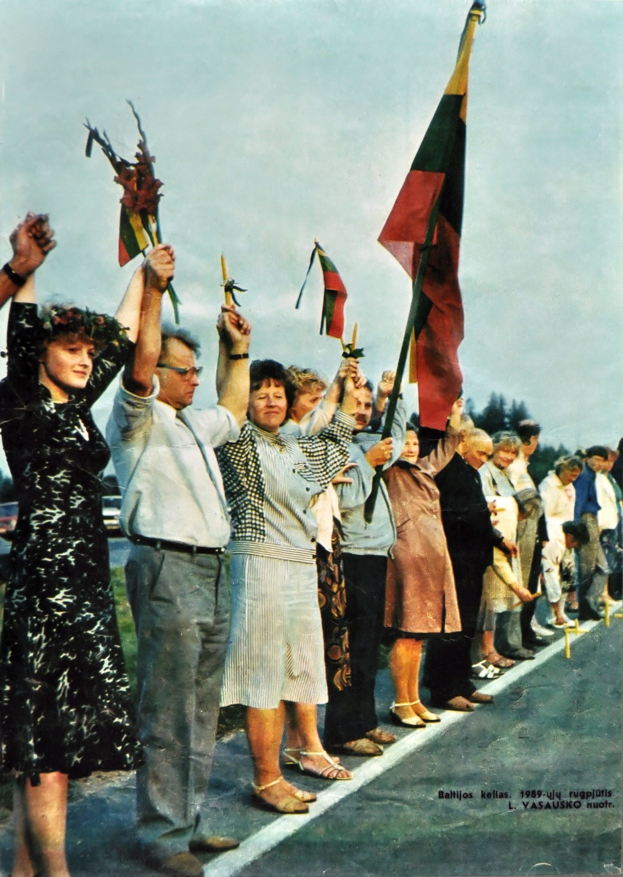 Photo of the Baltic Way published in Moteris magazine. Participants hold candles and Lithuanian flags with black ribbons to express mourning and disagreement about the situation they are living.